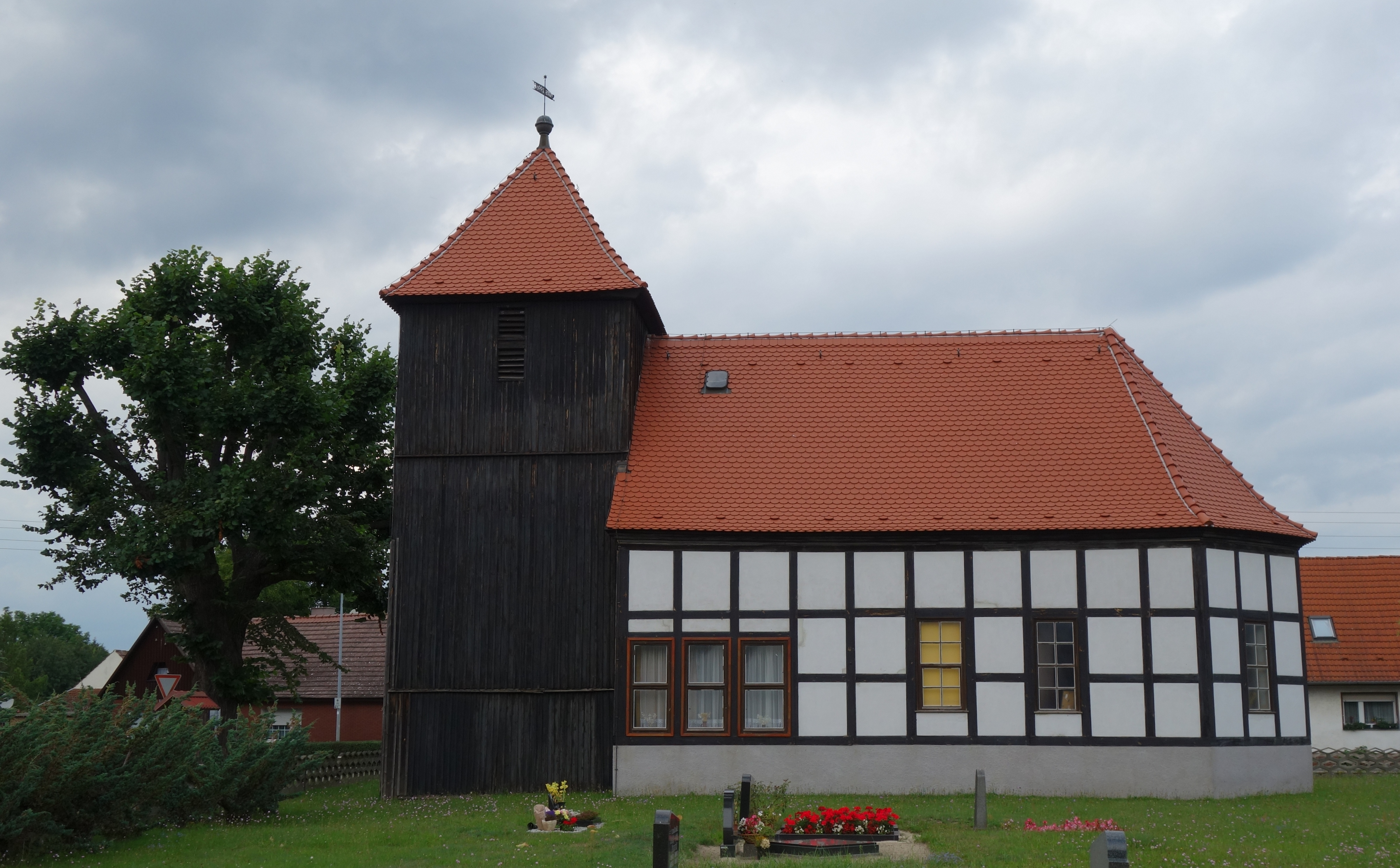 Southern view of church in Lieske with protected lime tree, Neu-Seeland municipality, Oberspreewald-Lausitz district, Brandenburg state, Germany.